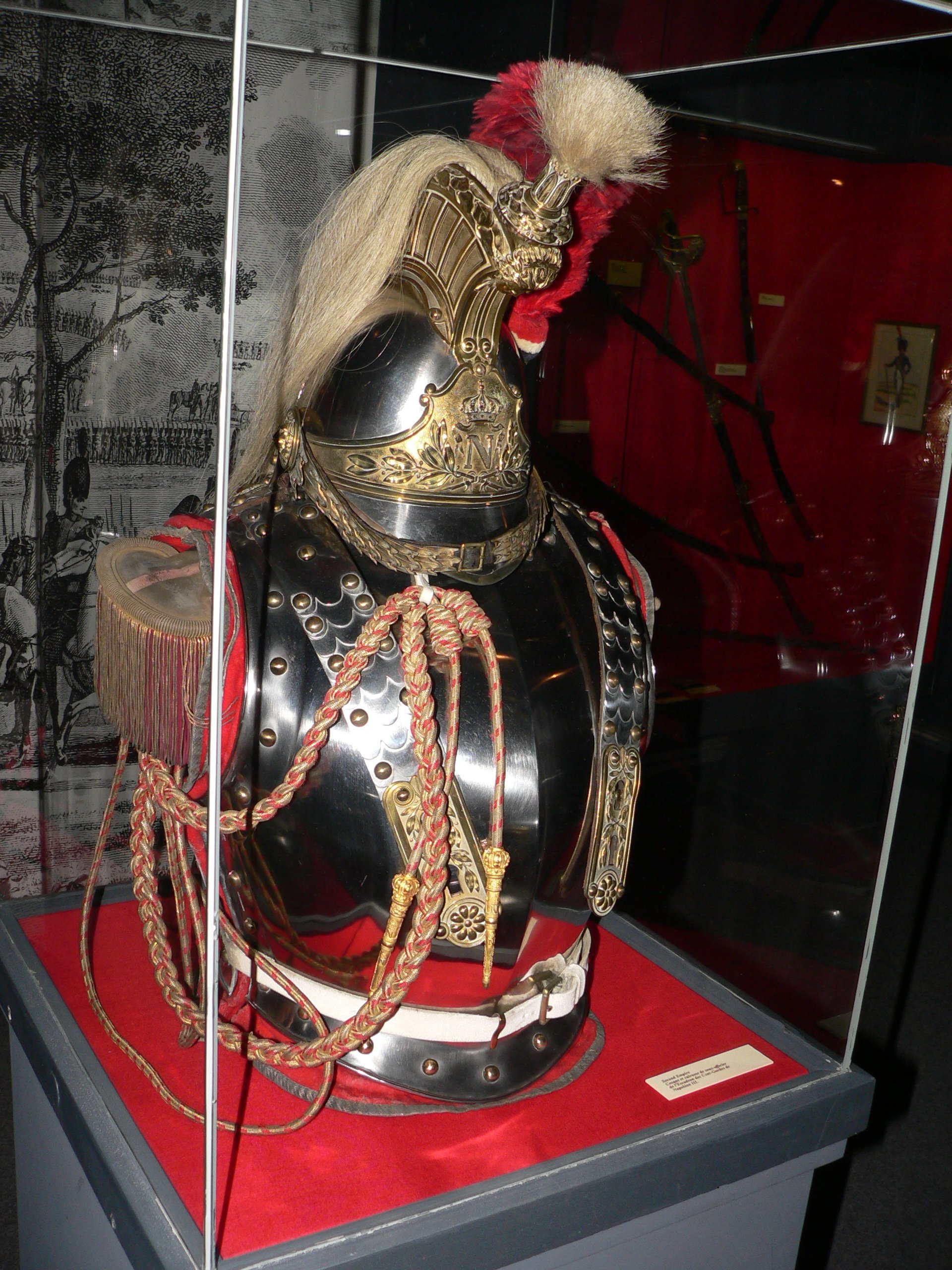 Armours and Cent-Garde armours, musee d'Art et d'Histoire de Neuchatel